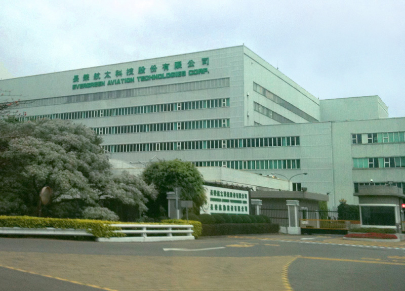 Evergreen Aviation Technologies and Evergreen Airline Services headquarters.